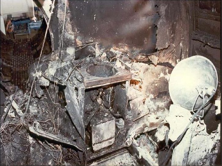 Fire damage in the aft lavatory of DC-9 C-FTLU (Air Canada Flight 797), the point of origin of the fire.